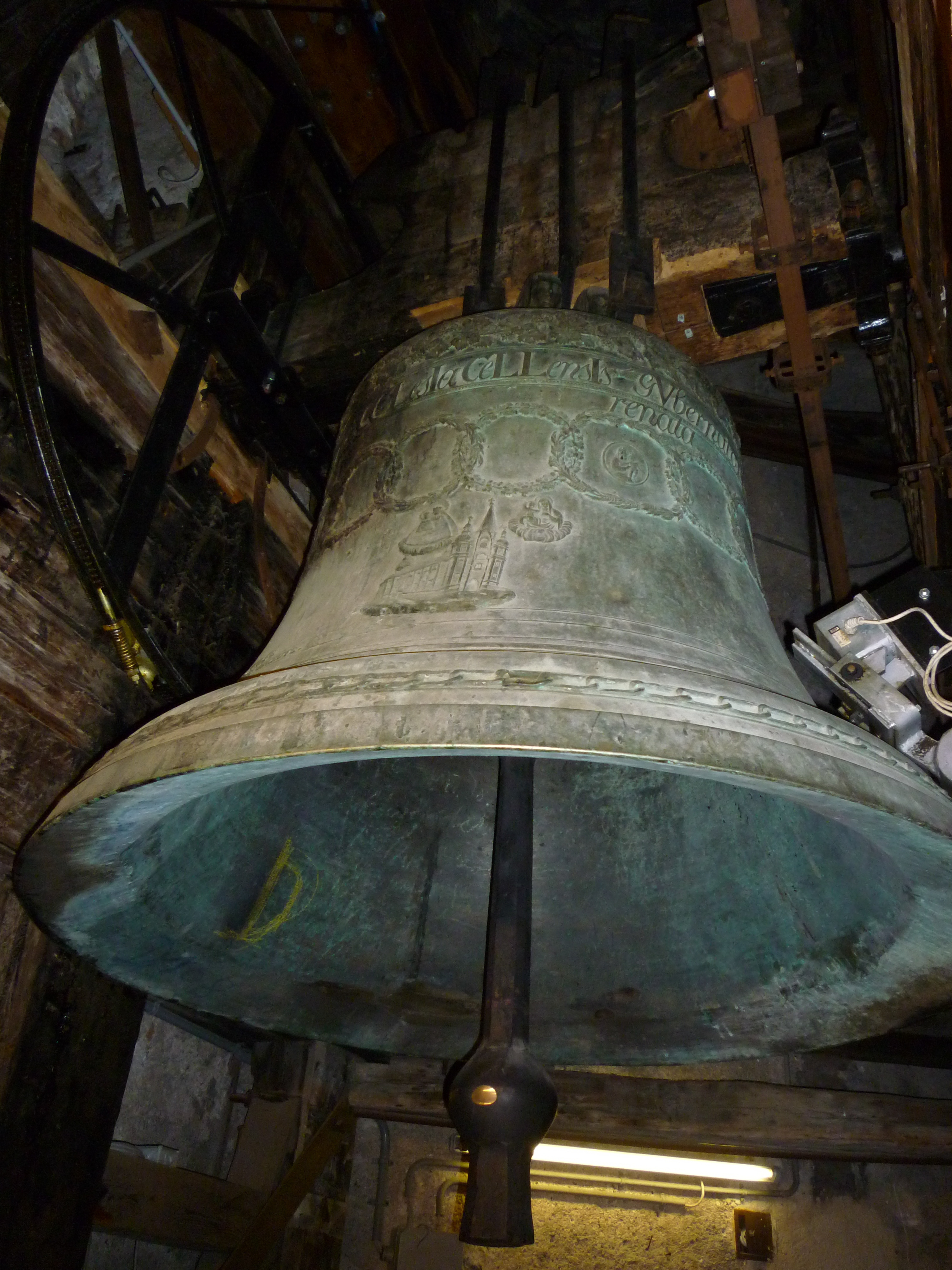 2nd bell of Mariazell Basilica, cast 1830 by F.X. Gugg the younger. Strike tone h0, weight 2.800 kg, diameter 167 cm.